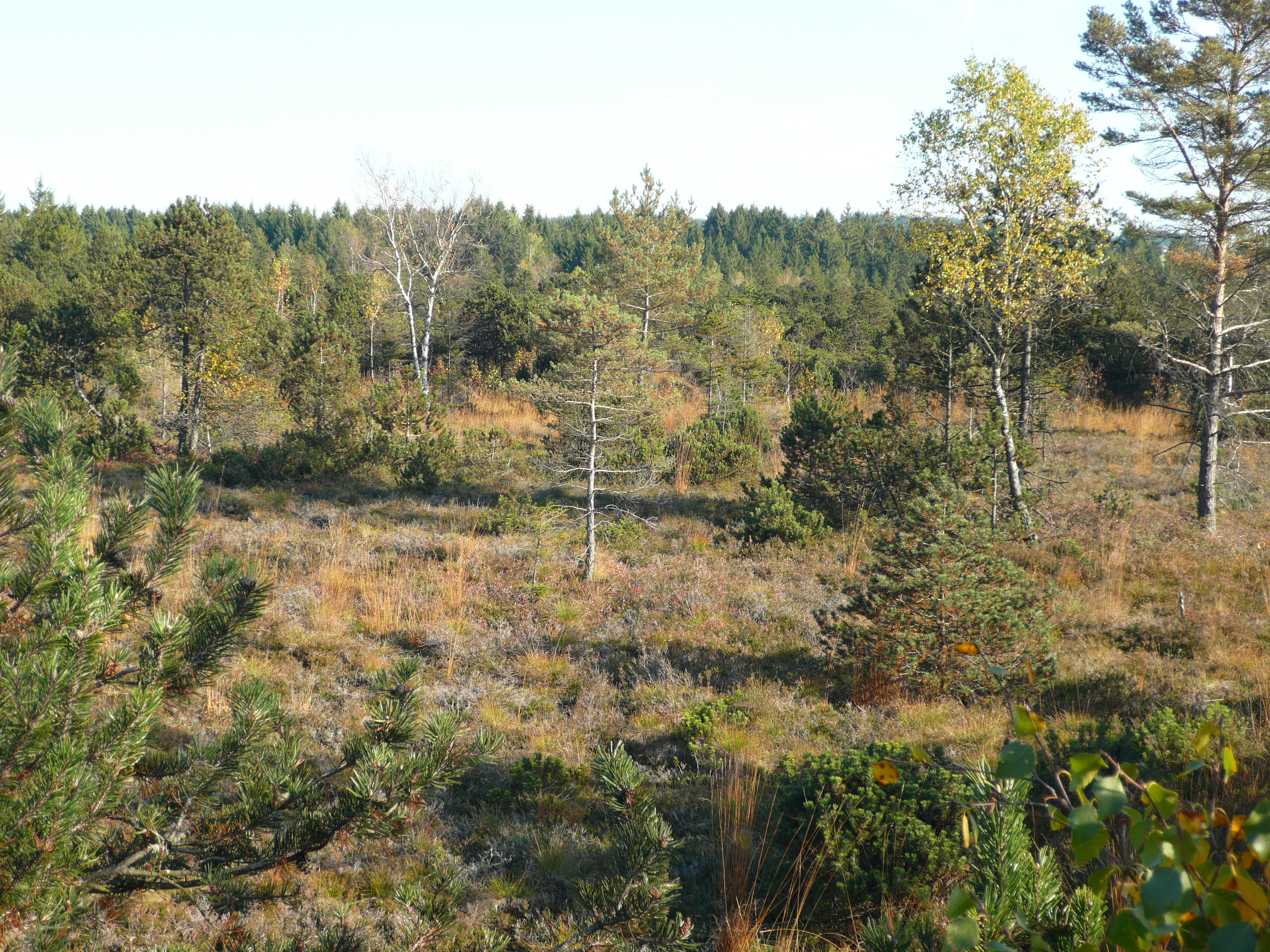 Bodenmöser, natural reserve near Isny, Germany